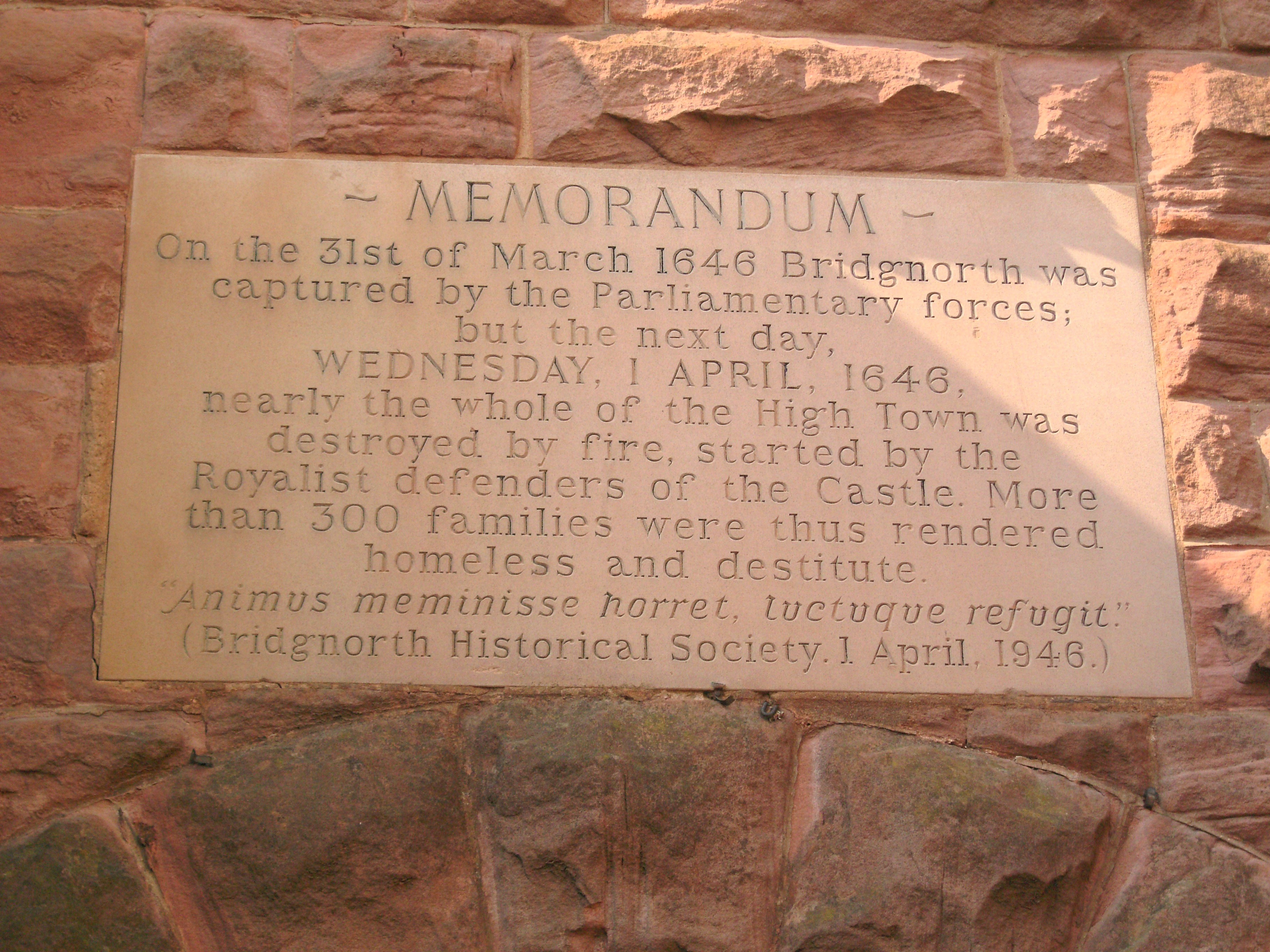 Inscription marking destruction by fire of Bridgnorth upper town by royalist forces in 1646. North gate, Bridgnorth, Shropshire, England.